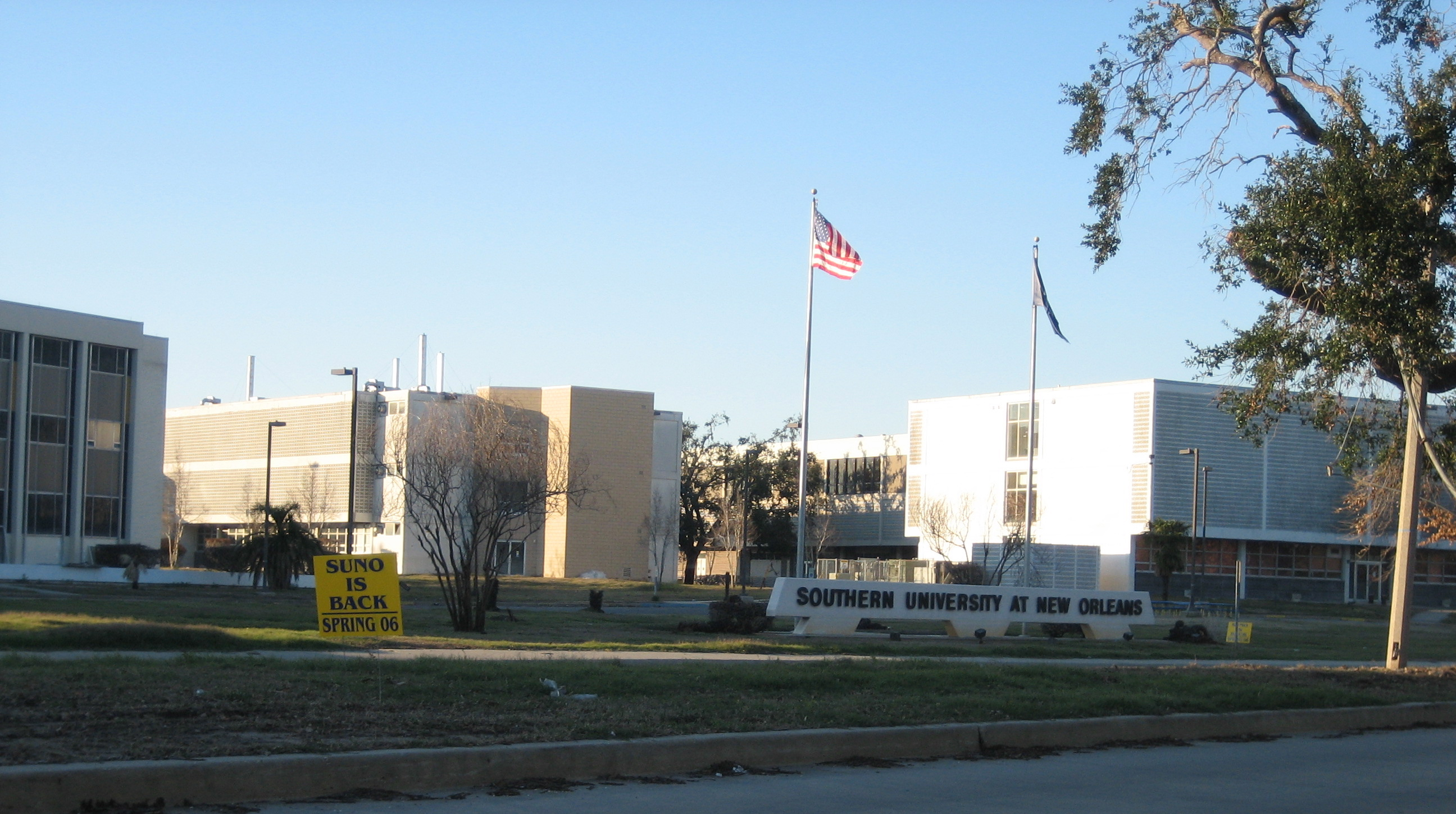 New Orleans after Hurricane Katrina: Southern University at New Orleans in the Upper 9th Ward flooded, but plans to reopen. Photo by Infrogmation 20 December 2005.